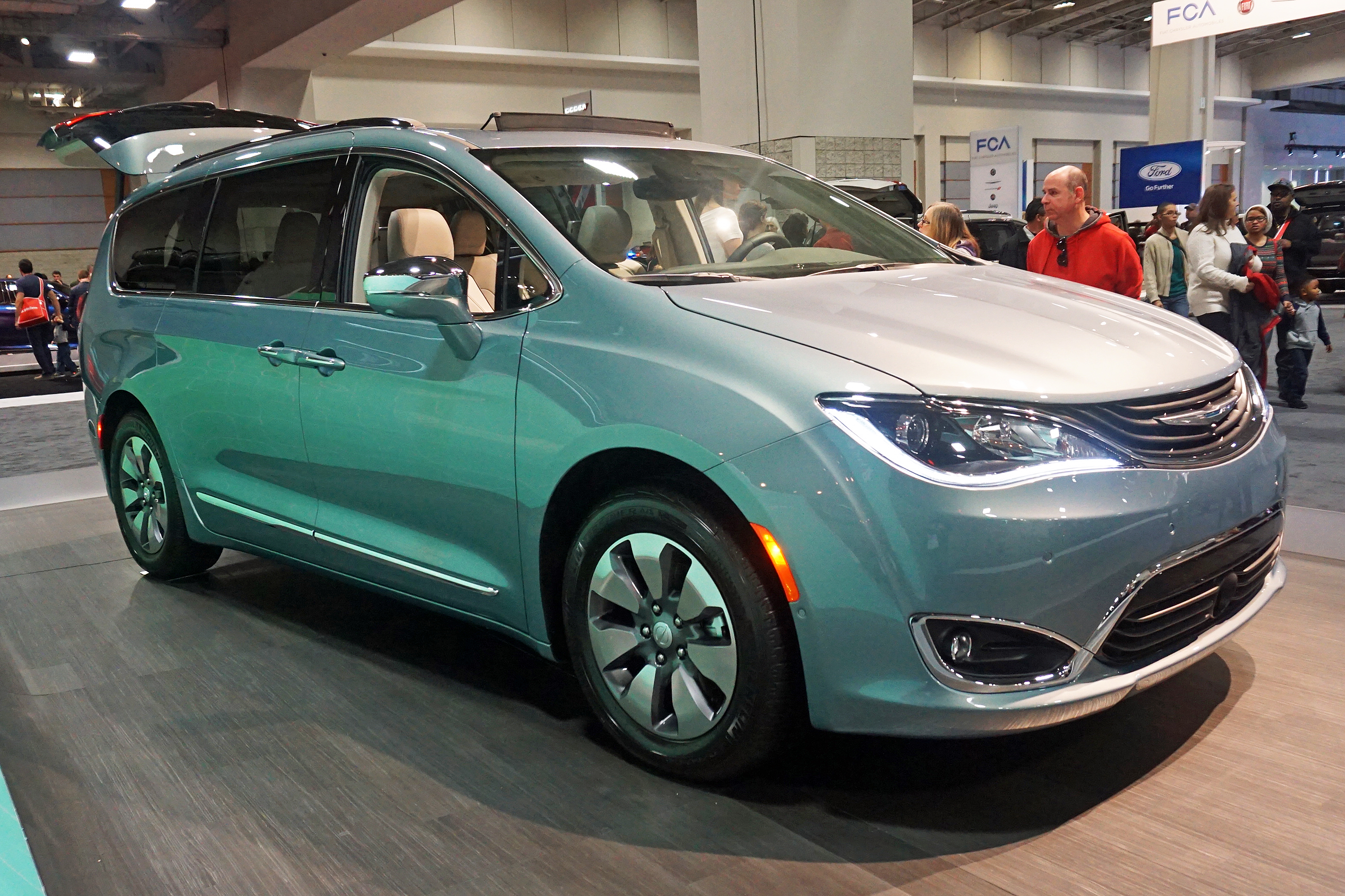 Chrysler Pacifica Hybrid plug-in hybrid exhibited at the 2017 Washington Auto Show, District of Columbia.